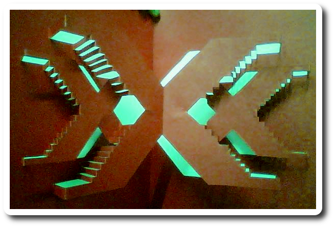 Now it's exam time for me and I'm now cranky to choose between paper or book... ;) Watched the movie "xXx" starring Vin Diesel?? Just tried to imitate the title graphic in pop-up form. That's it for today coz there's only a few hrs left for my exam. Uploaded with the Flock Browser